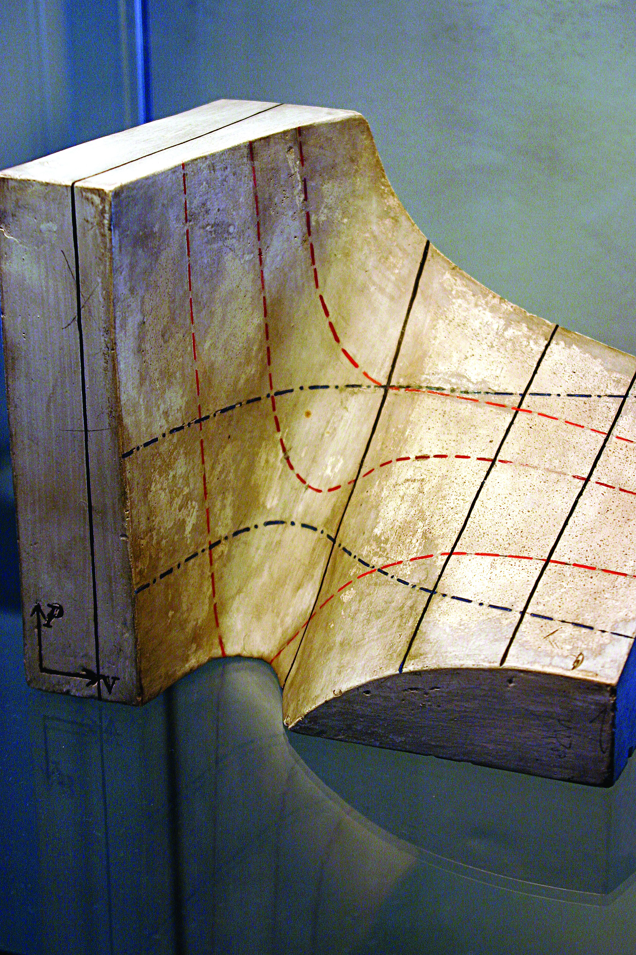 Museum Boerhaave, Leiden - 3D plaster model of van der Waals equation (behavior of gases) proposed by Johannes Diderik van der Waals in his thesis in 1873